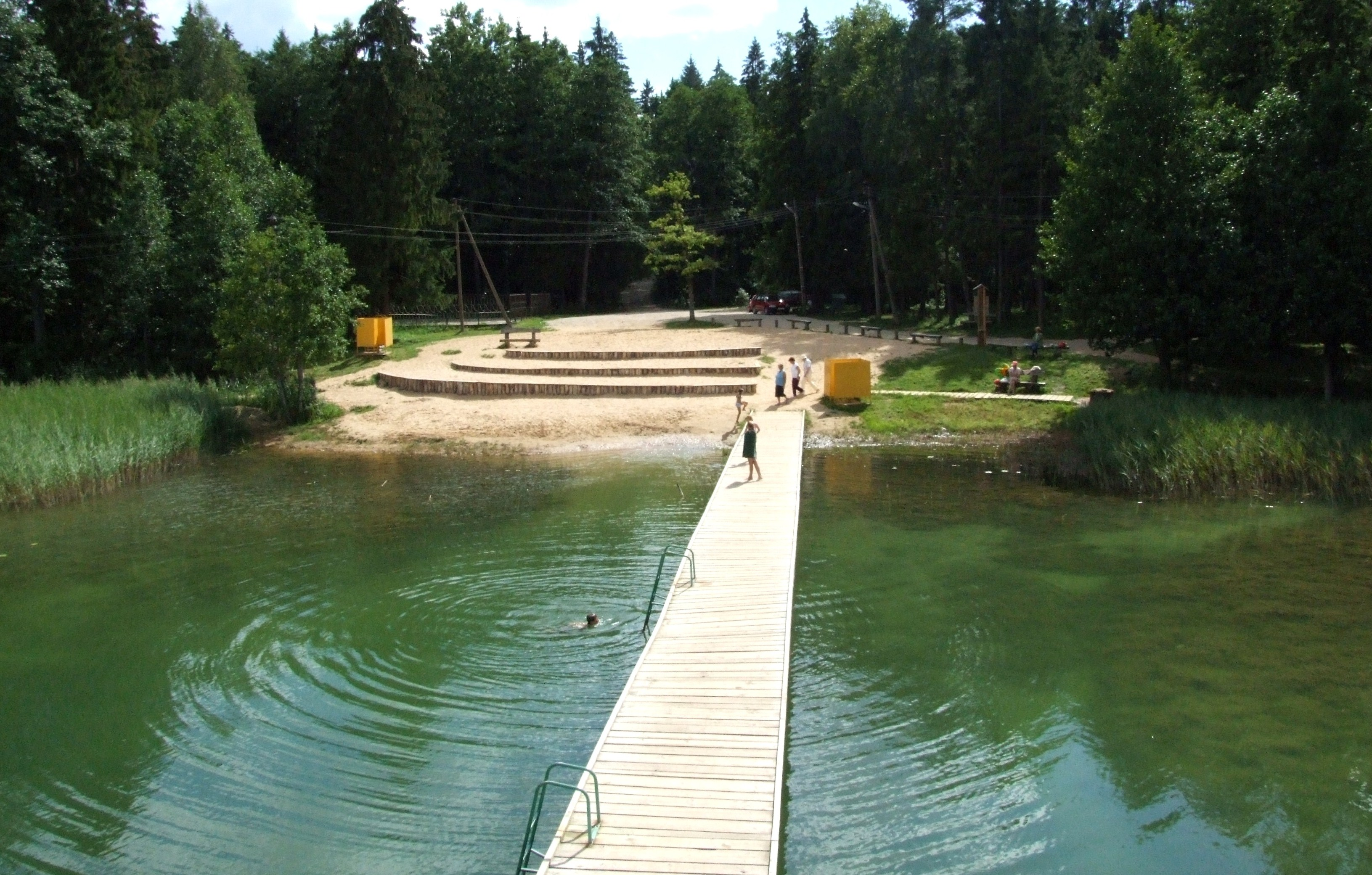 Gilius lake beach, Kelme district, Lithuania